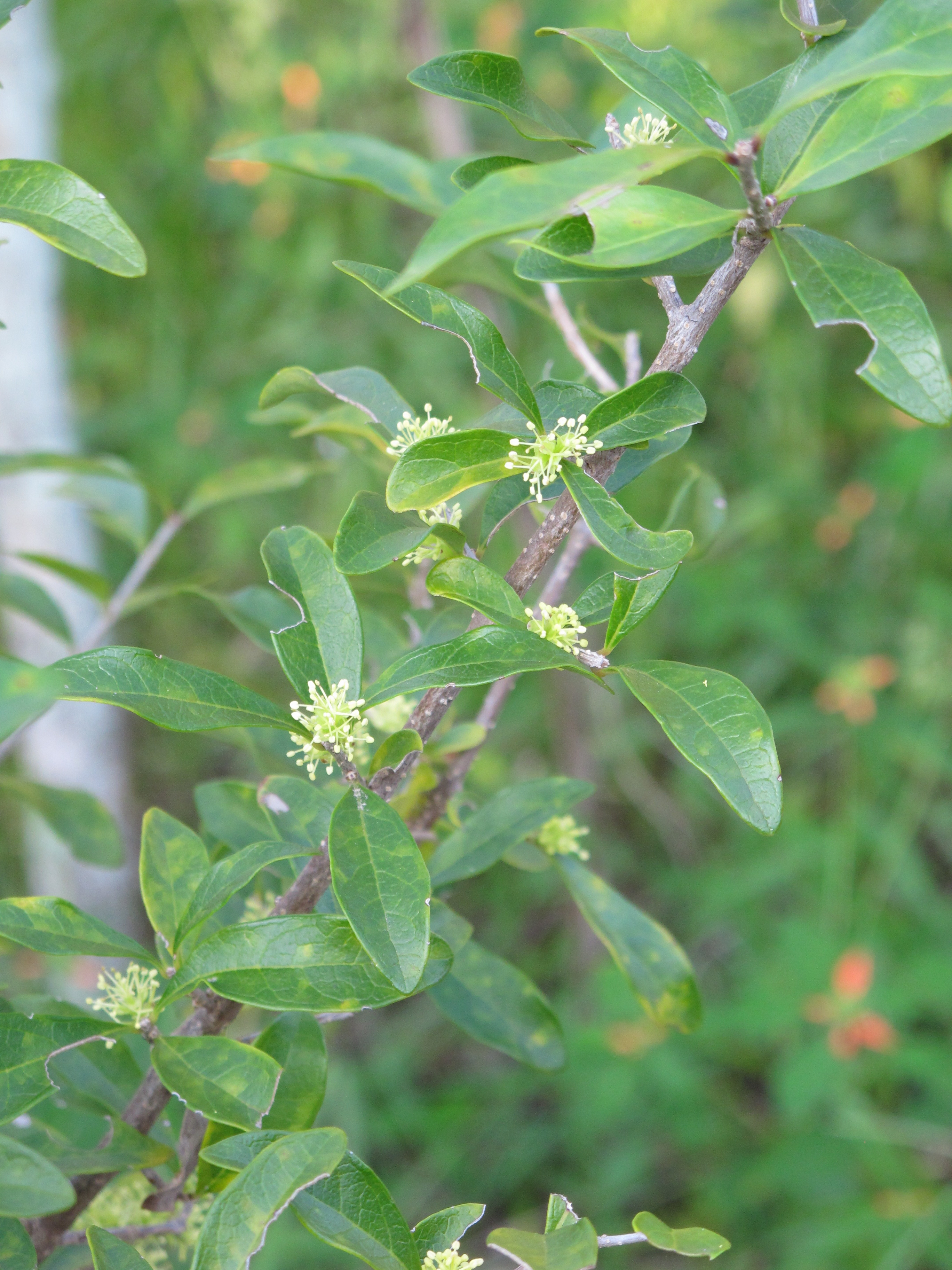 Yamato Scrub Natural Area, Boca Raton, Palm Beach County, Florida, USA.These are male flowers, and they are fragrant (in late afternoon, at least).